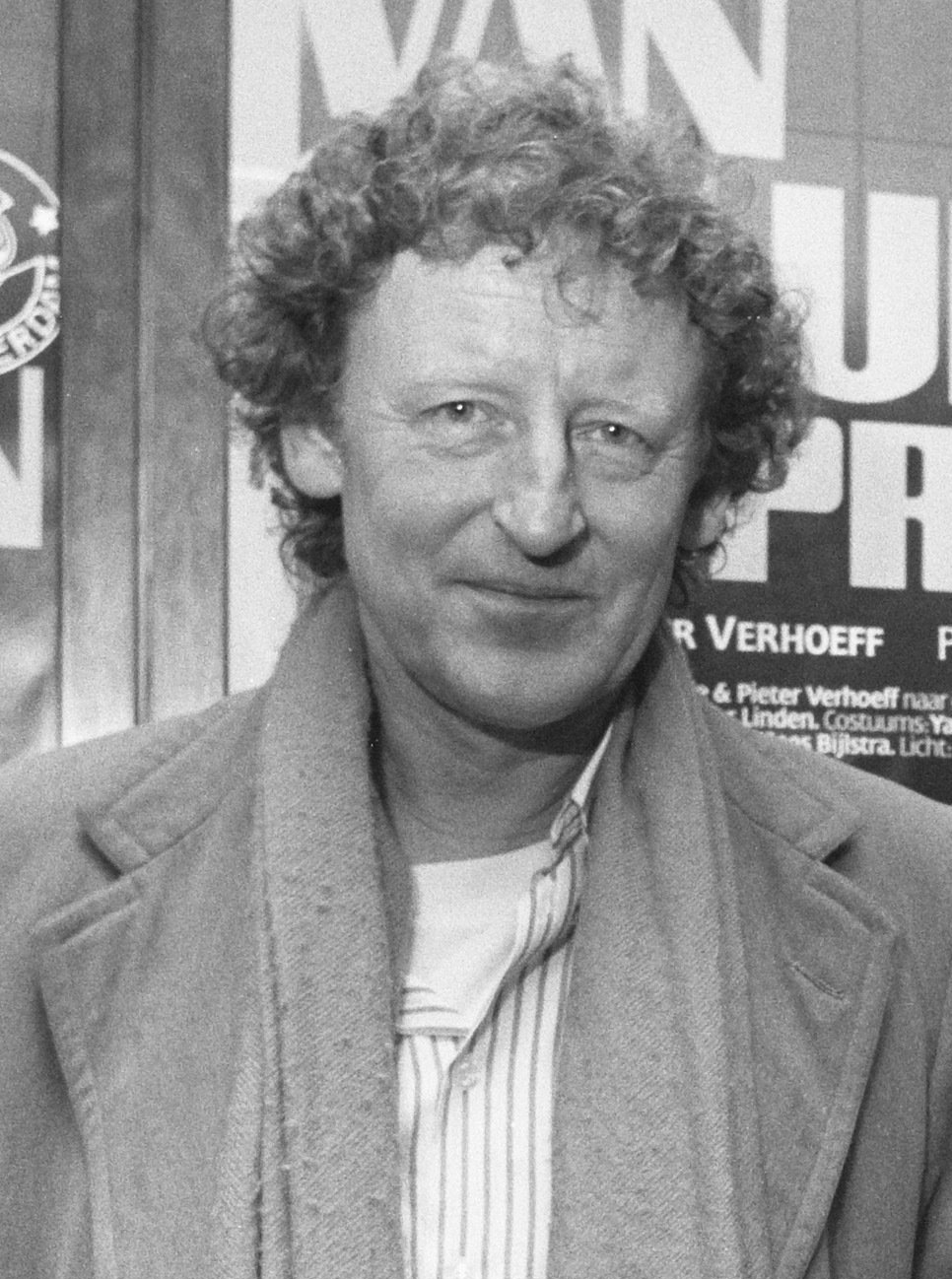 Director Pieter Verhoeff and writer Marijke Höweler after the press premiere of Count Your Blessings